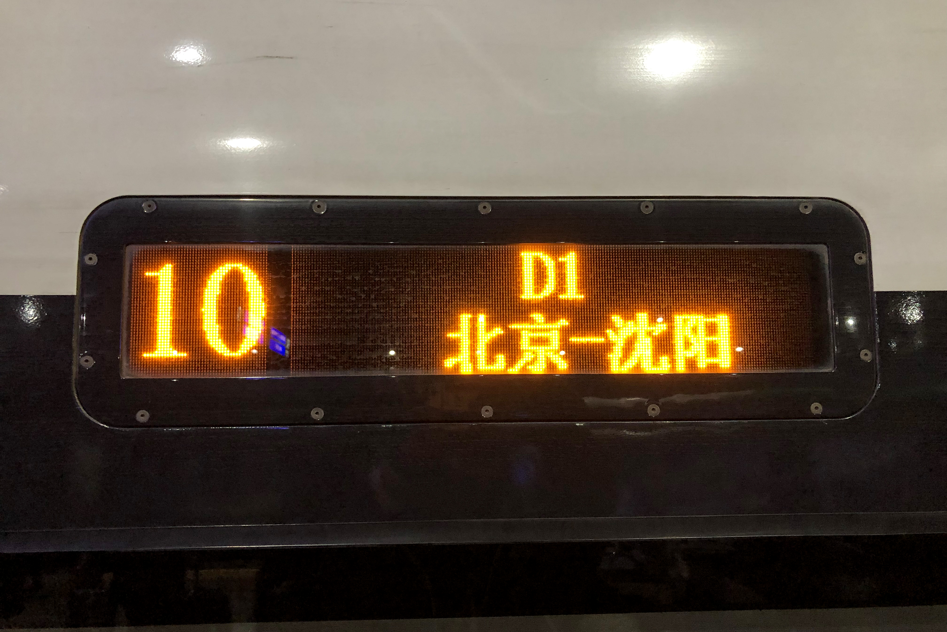 Still scrolls.